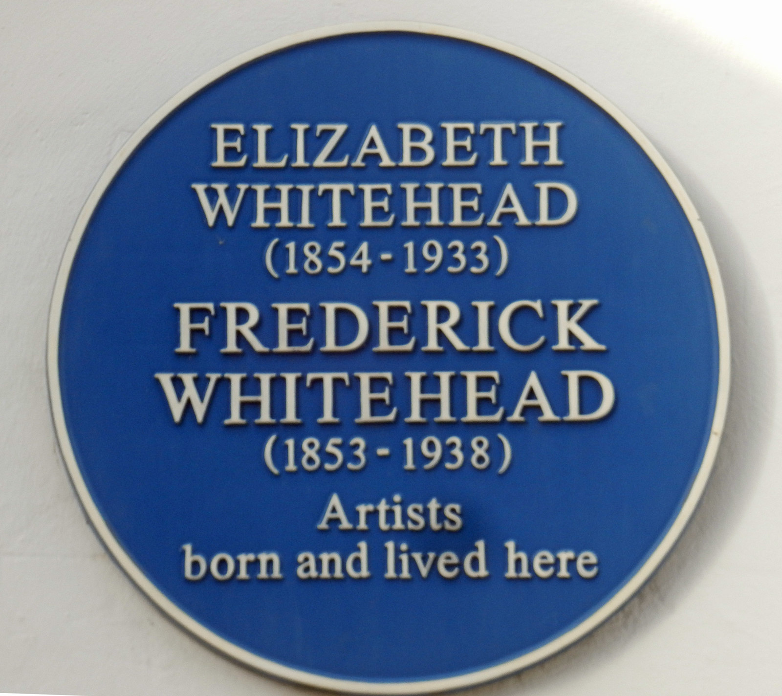 Leamington Spa: Blue Plaque - 5 Willes Road commemorating artists siblings Elizabeth & Frederick Whitehead.